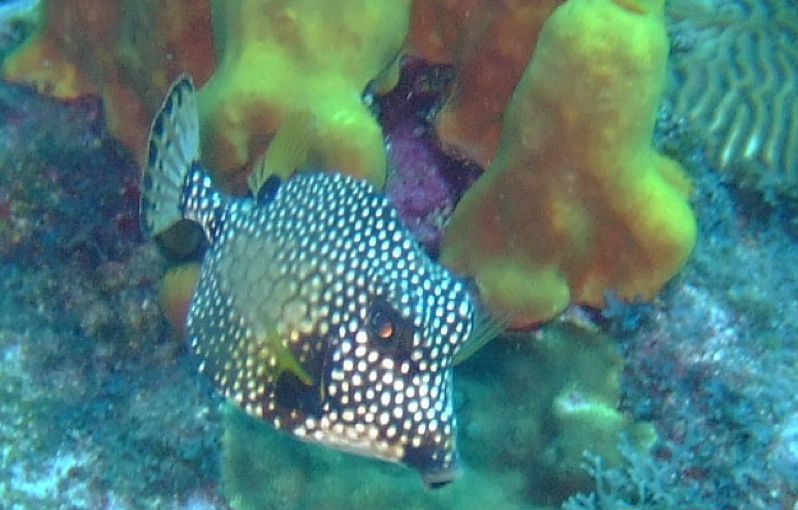 This Box Fish bwas caught by flash on Cobblers Reef